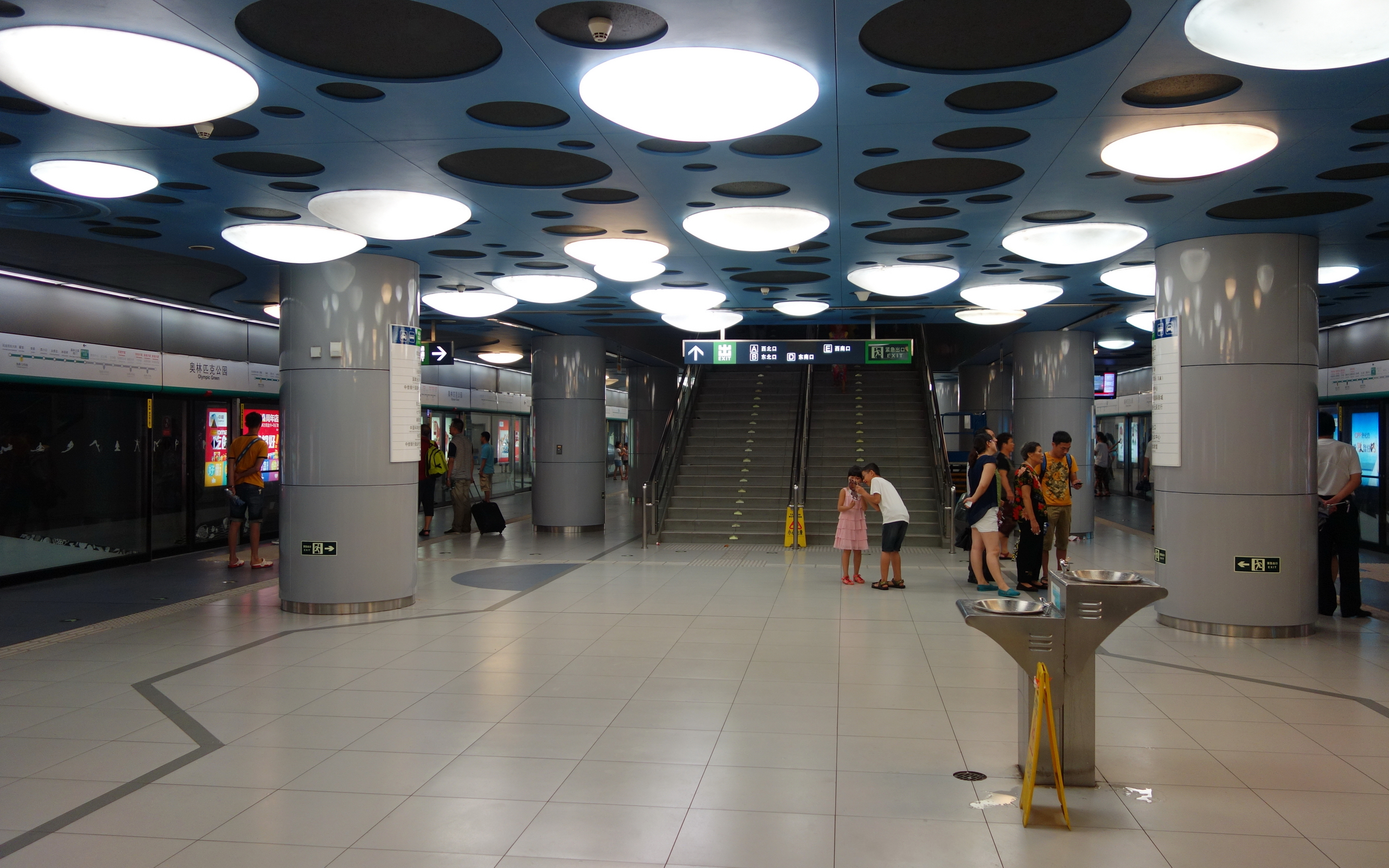 Olympic Green station, Beijing Subway